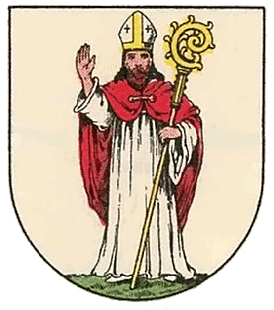 Coat of arms of Sievering, Vienna